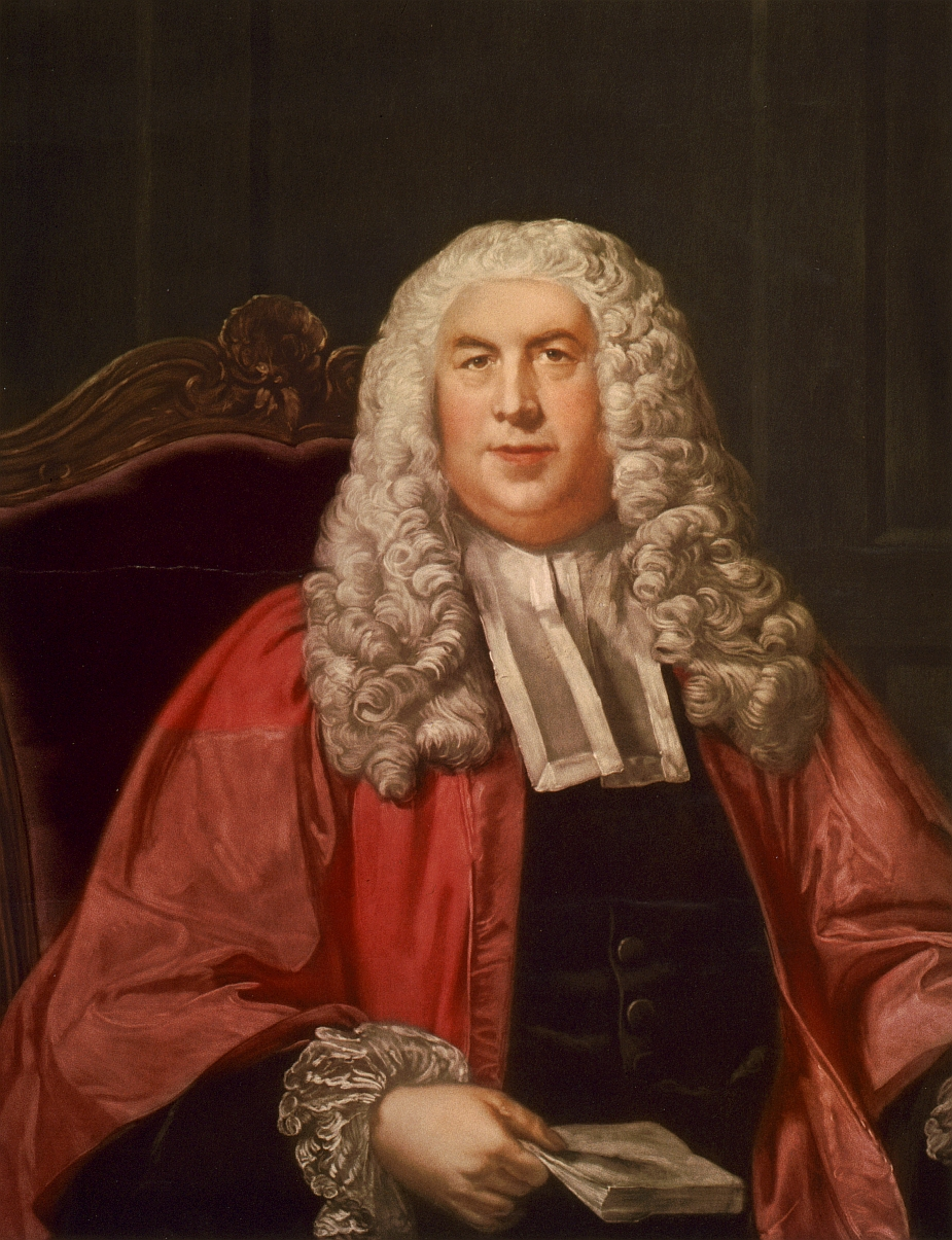 Portrait of English jurist Sir William Blackstone (1723-1780)